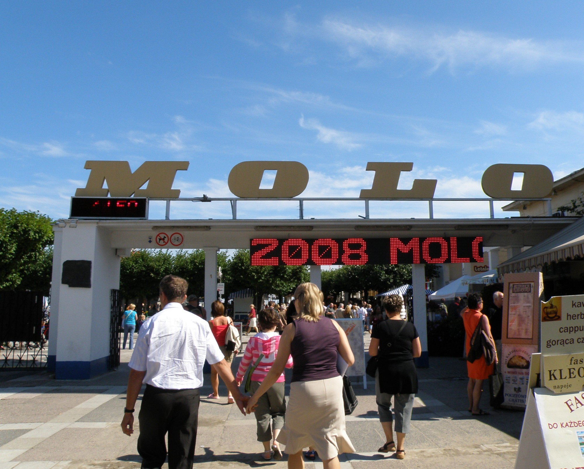 Poland, Sopot Molo